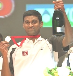 V Diju